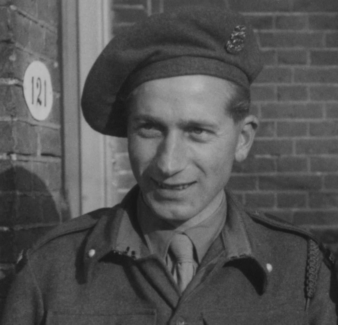 Anton van den Hurk